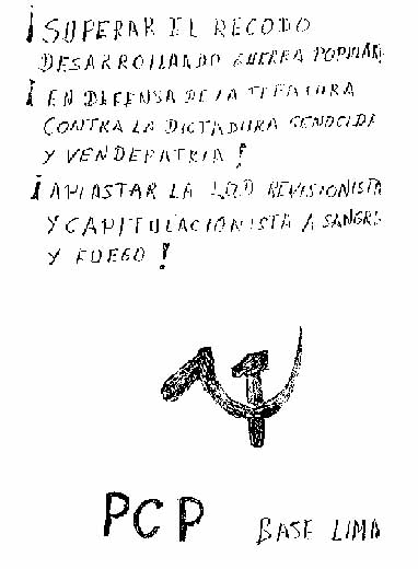 Communiqué of Sendero de Lima-Base Lima of 1945